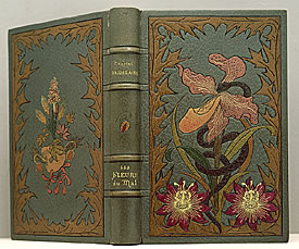 Les fleurs du mal First Edition cover binding detail by Charles Meunier